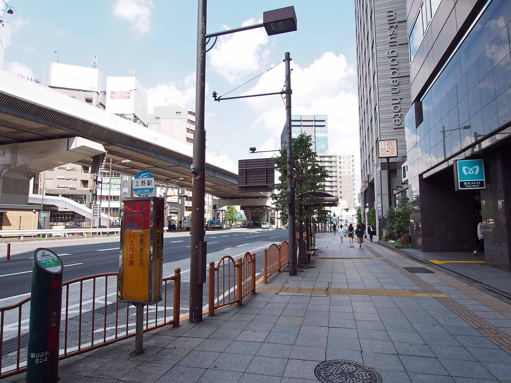 Ueno Station Bus Stop of JR Bus Kanto, for arrival of expressway bus from Tsukuba, Mito and Hitachi, Ibaraki, located at head office of Tokyo Metro.